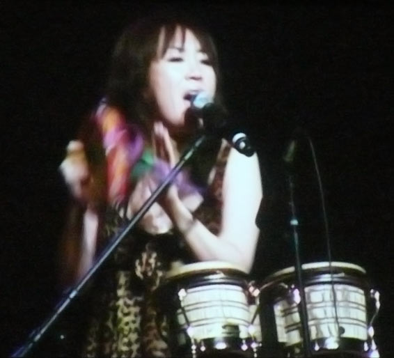 Masami Okui performing at JAM Project World Flight 2008 No Border